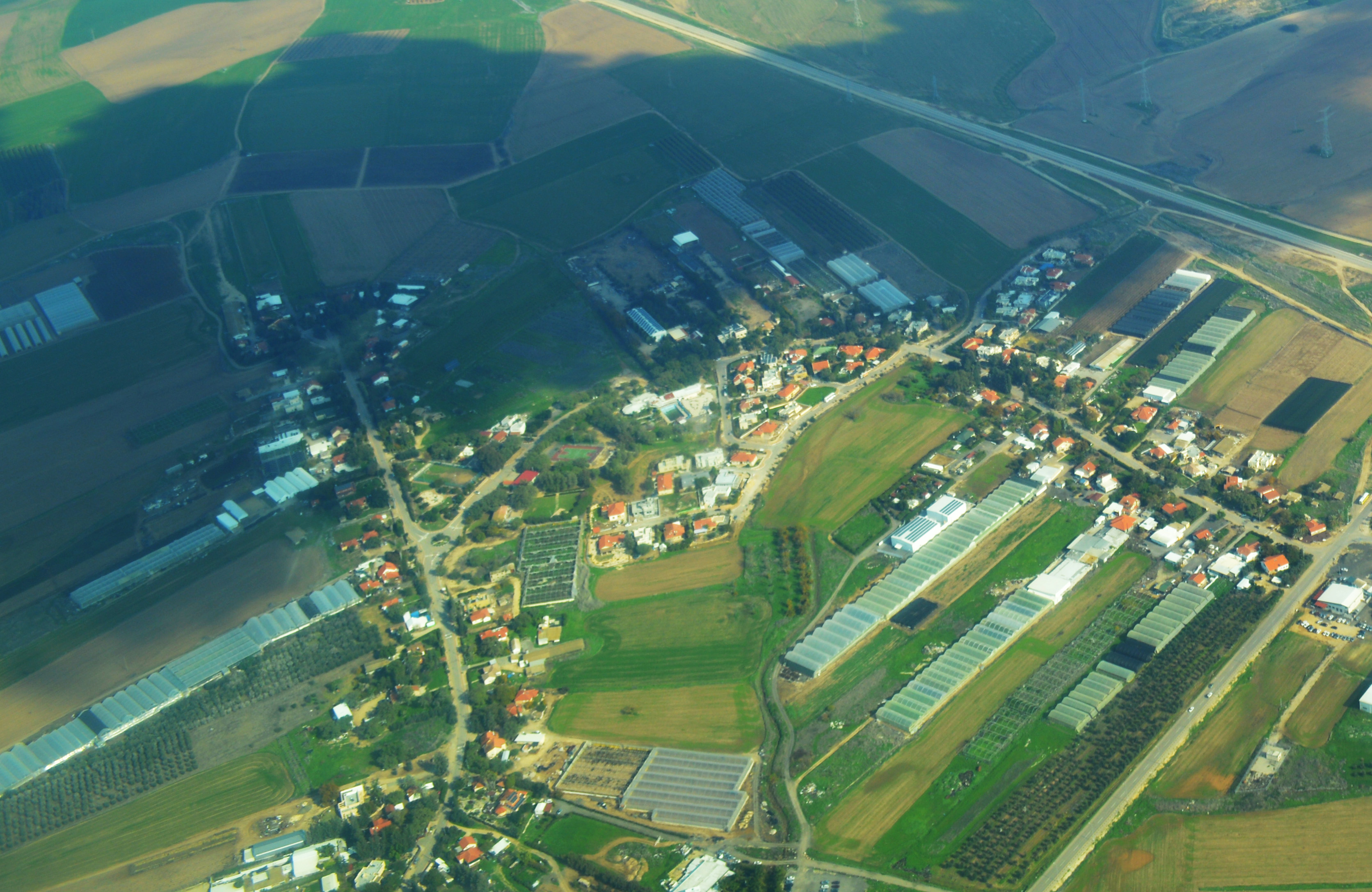 Sgula Aerial View